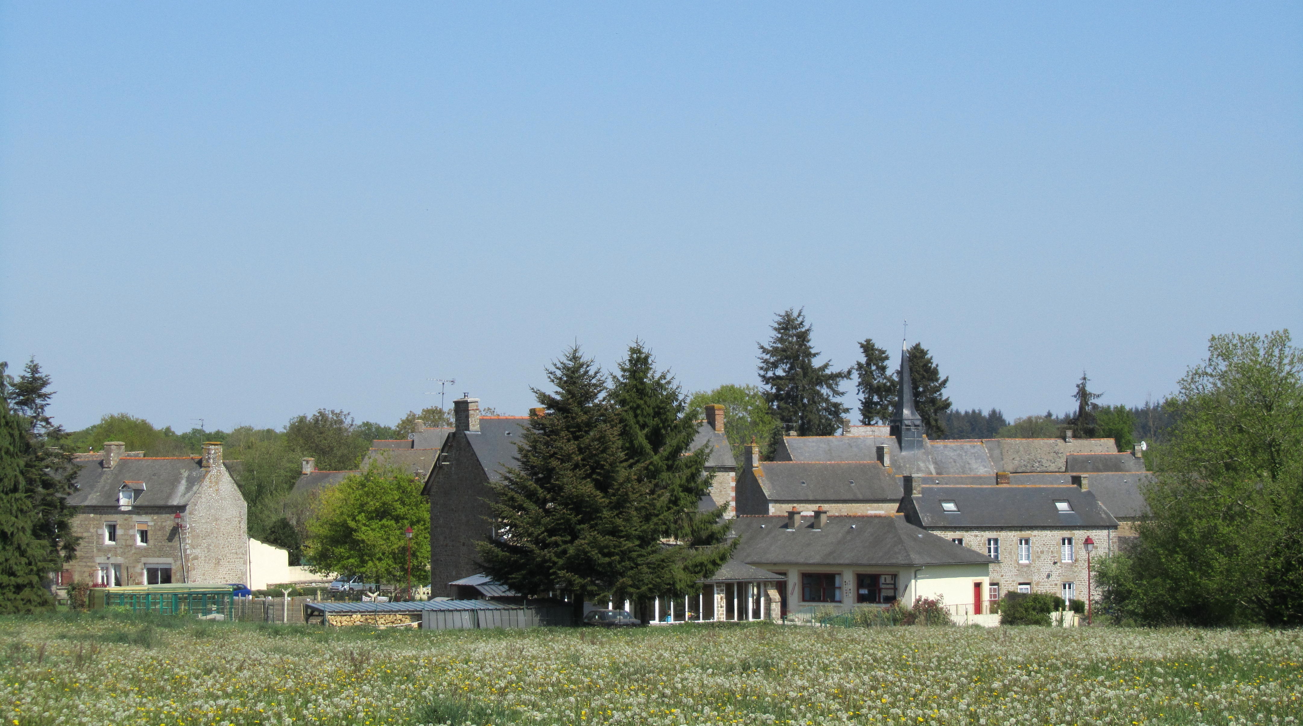 Saint-Christophe-de-Valains seen from cemetery